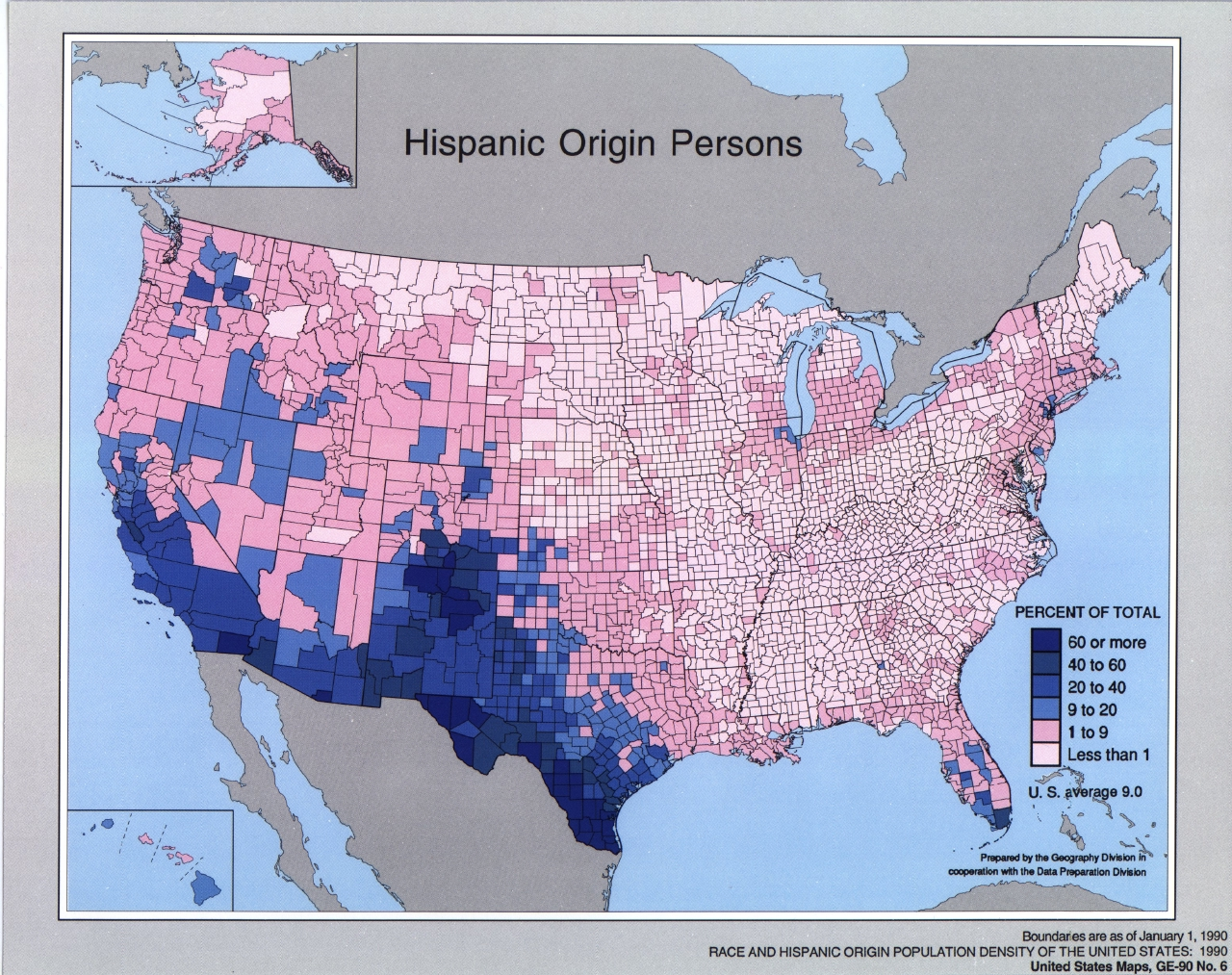 Race and Hispanic Origin Population Density of the United States: 1990 (by County as a Percentage of Total Population) Original map is displayed in four distinct color schemes on one sheet which measures 19" x 22". Hispanic Origin Persons See also: American Indian, Eskimo, and Aleut Persons Asian and Pacific Islander Persons Black Persons